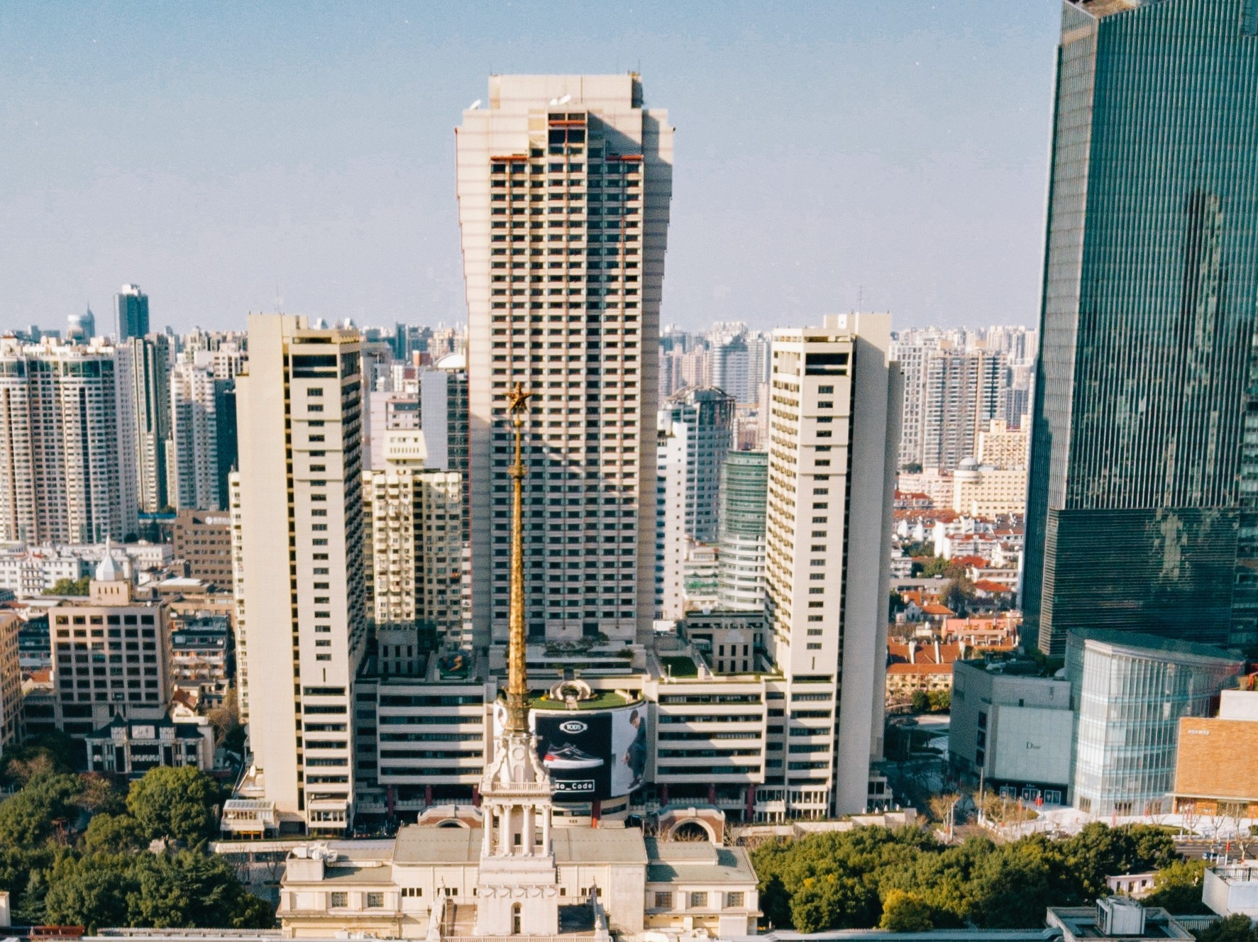 Shanghai Centre - The Portman Ritz-Carlton, Shanghai in 202002